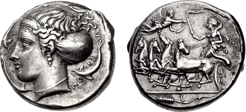 Sicilia, Syracusae. Second Democracy. 466-405 BC. AR Tetradrachm (25mm, 17.31 g, 12h). Obverse die signed by Phrygillos, reverse die in the style of Euarchidas. Struck circa 415-405 BC. Head of Arethusa left, hair in ampyx with ΦPY on the front, wearing single-pendant earring and pearl necklace; Σ-Y-[P]-A-KΩ-ΣI-ΩN and four dolphins around Charioteer, holding kentron in right hand and reins in left, driving fast quadriga left; above, Nike flying right, crowning charioteer with wreath; in exergue, grain ear left.